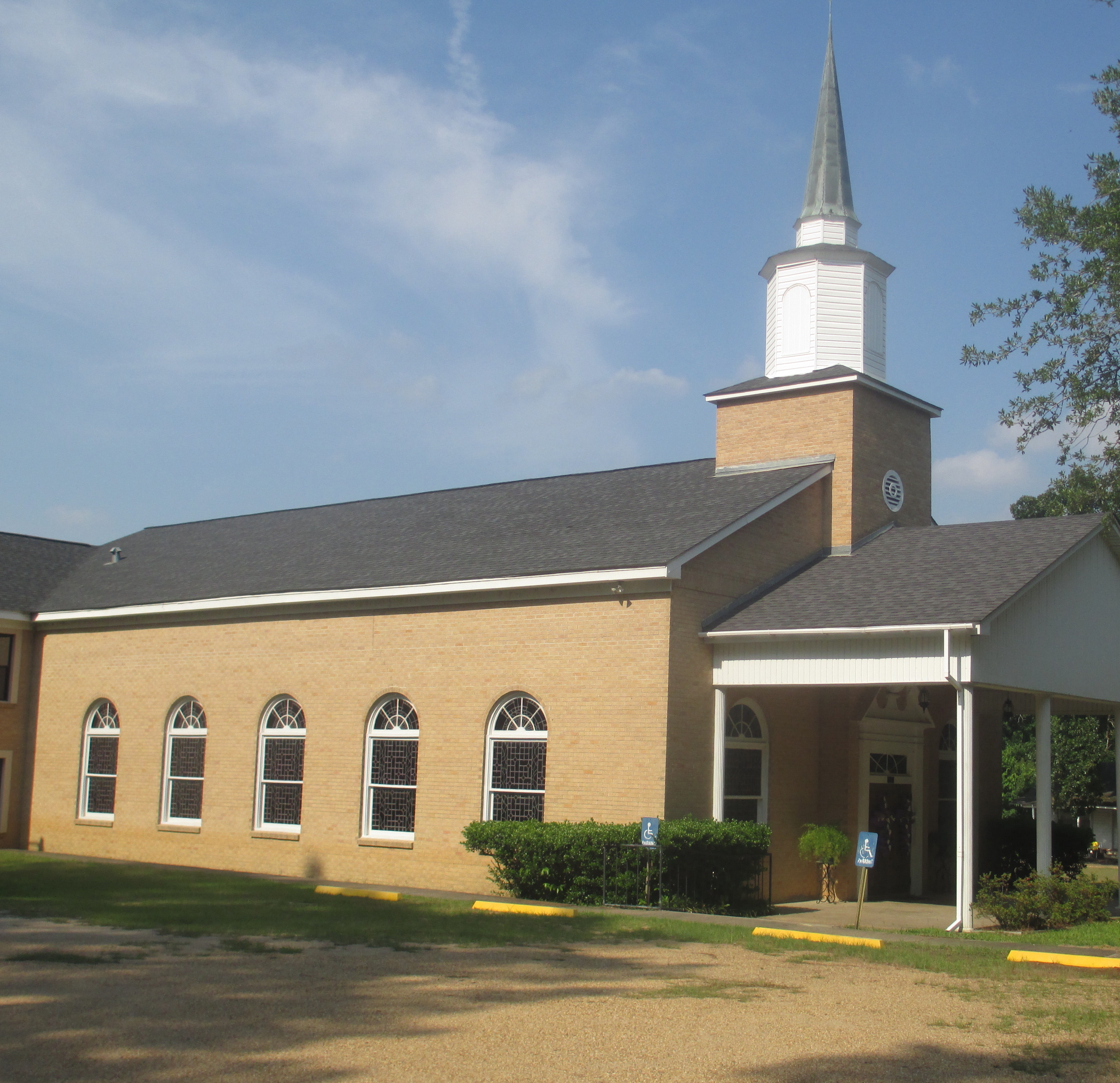 I took photo in Montgomery, LA, of First Baptist Church, with Canon camera.